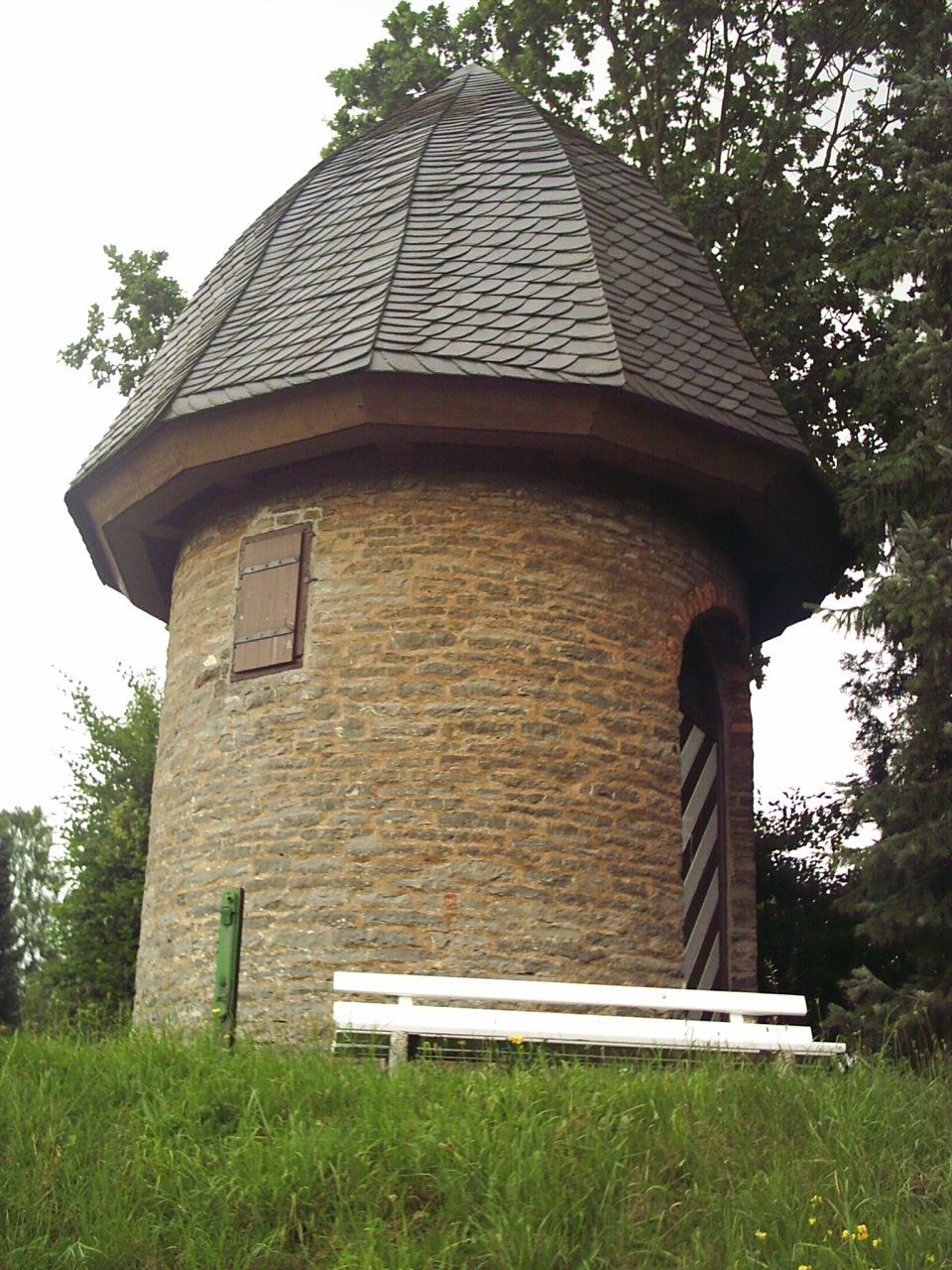 Pulverturm (gunpowder tower), Meschede, Germany check usage